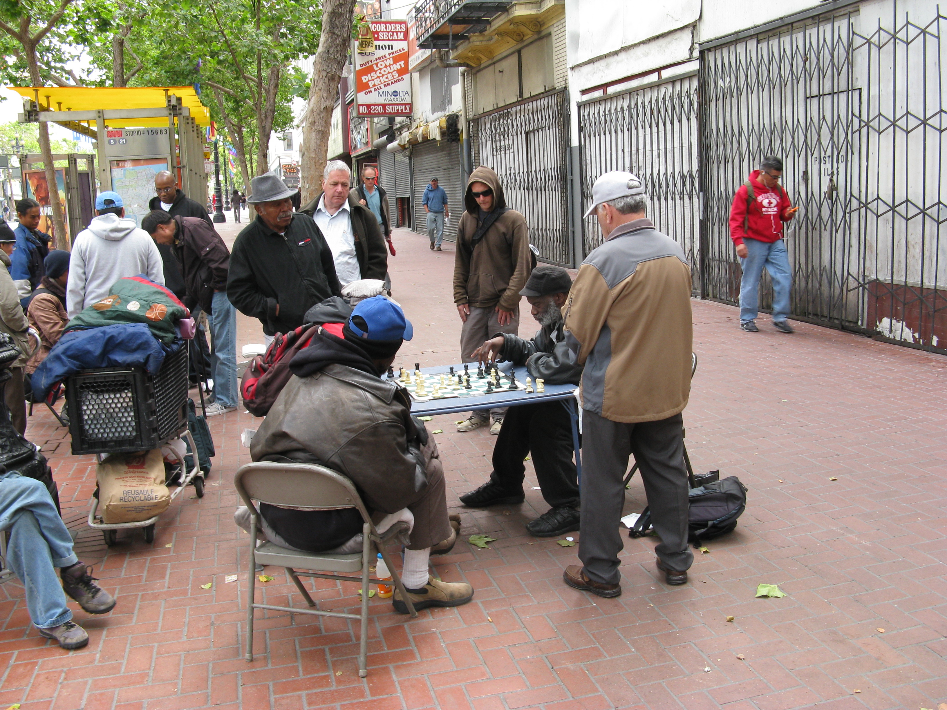 People playing chess at Market Street, San Francisco